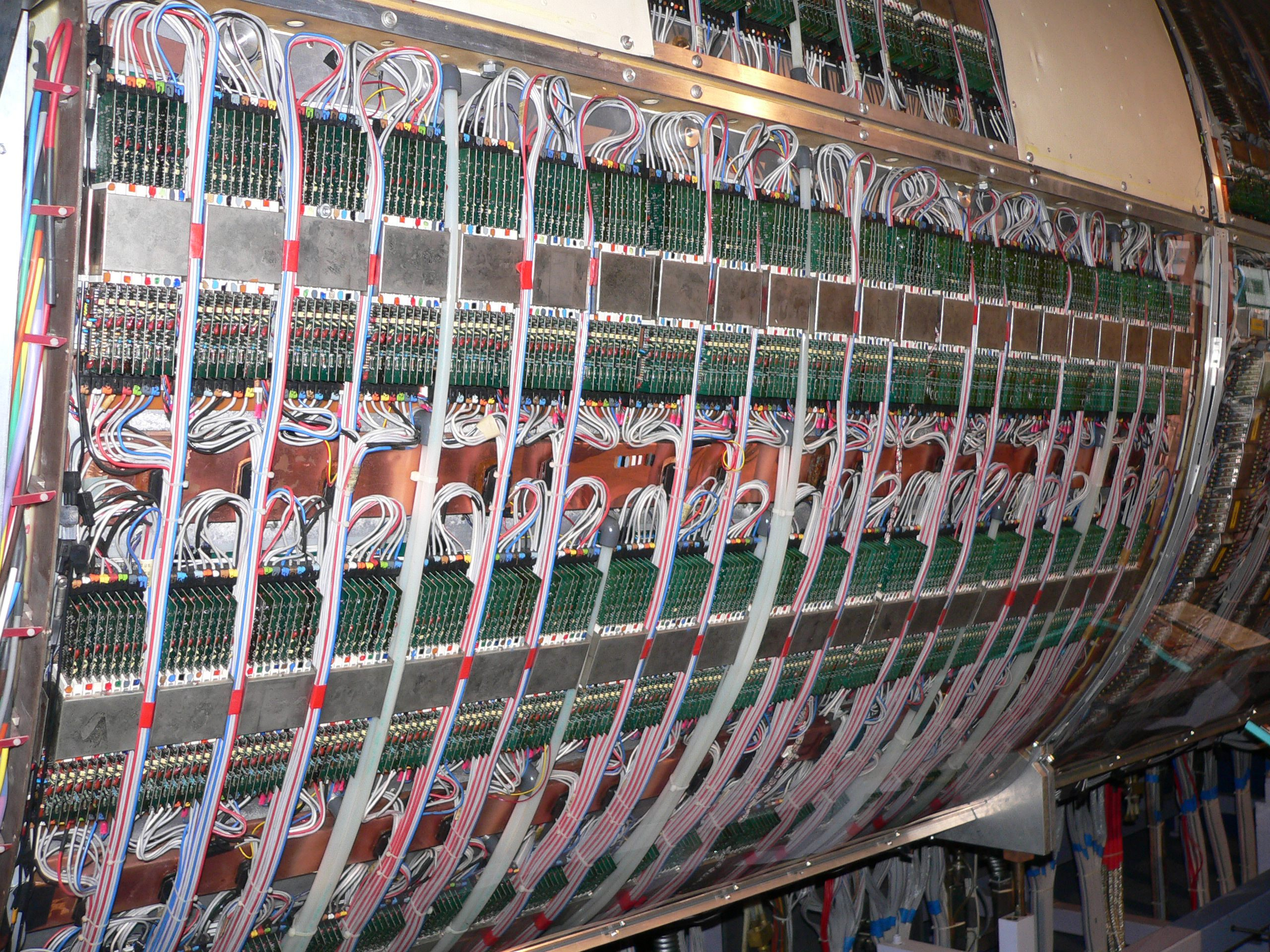 "Microcosme" exposition at the CERN